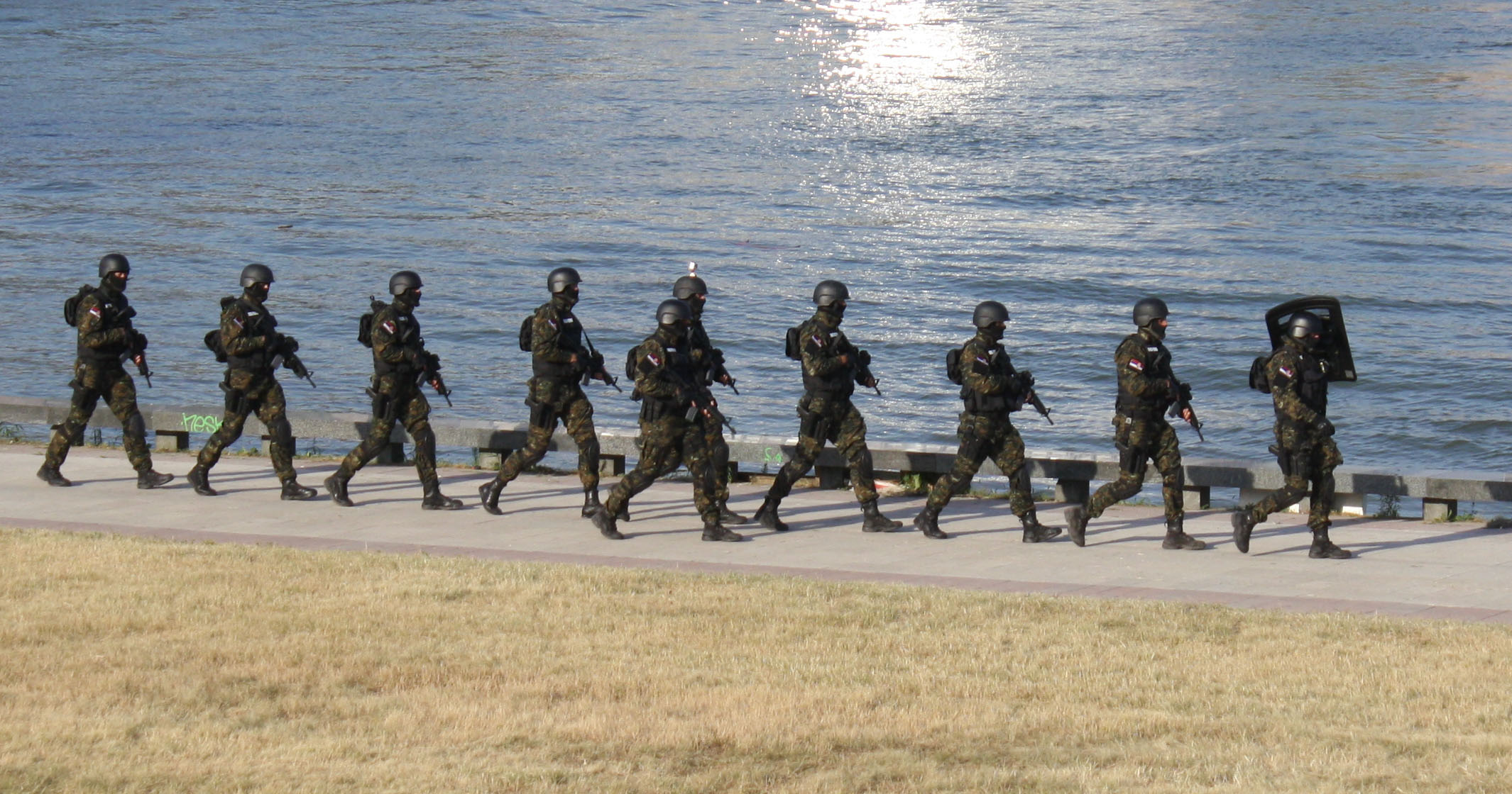 Serbian Gendarmerie exercise "SAVA 2012".